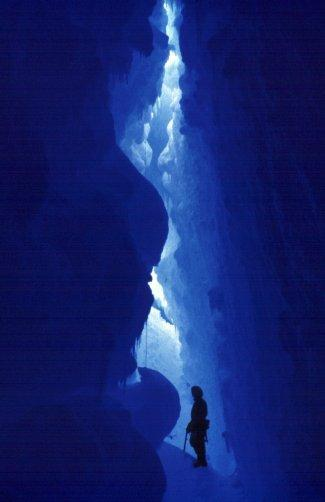 The bottom of an antarctic crevasse